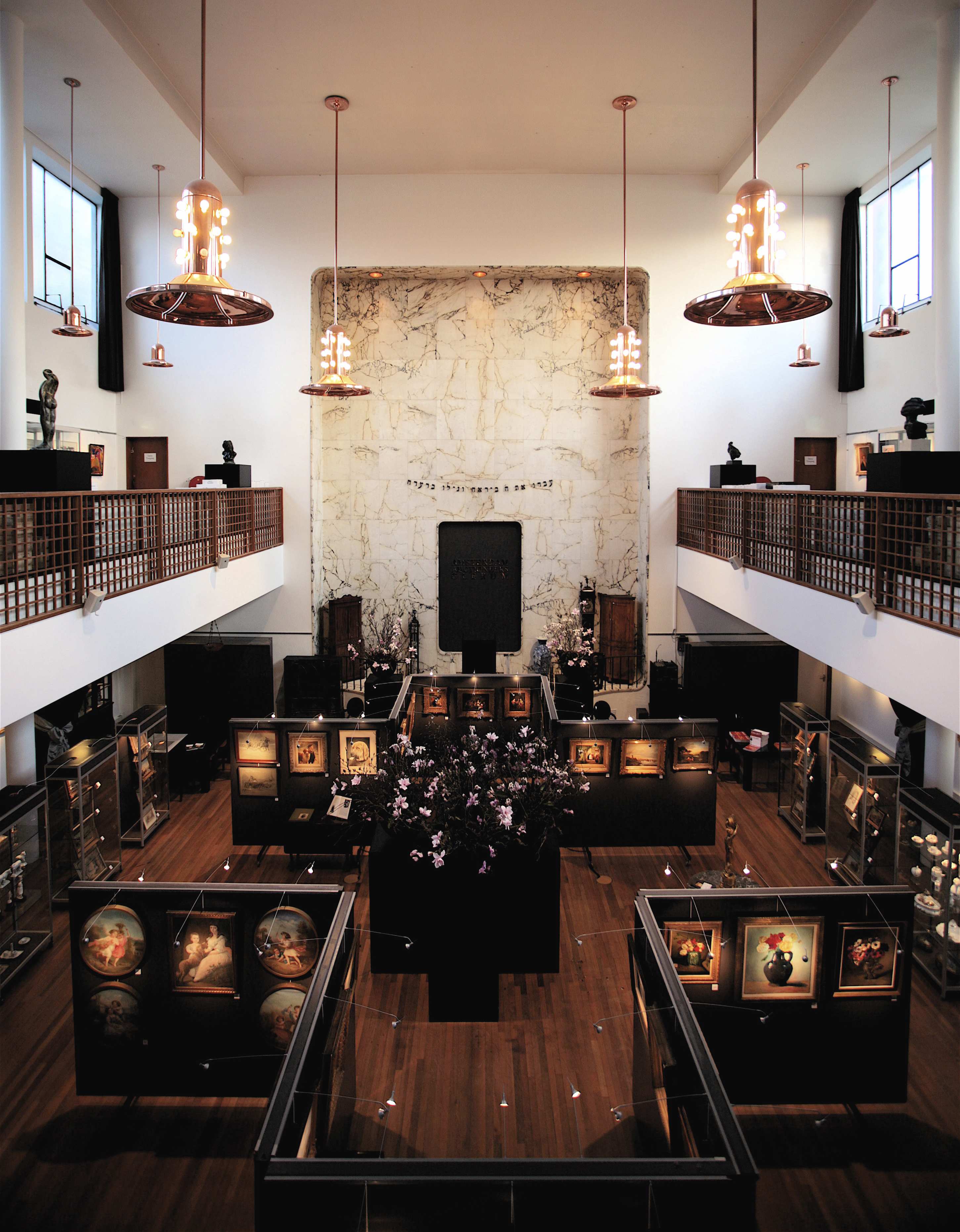 Interior Amsterdam Auctioneers Glerum